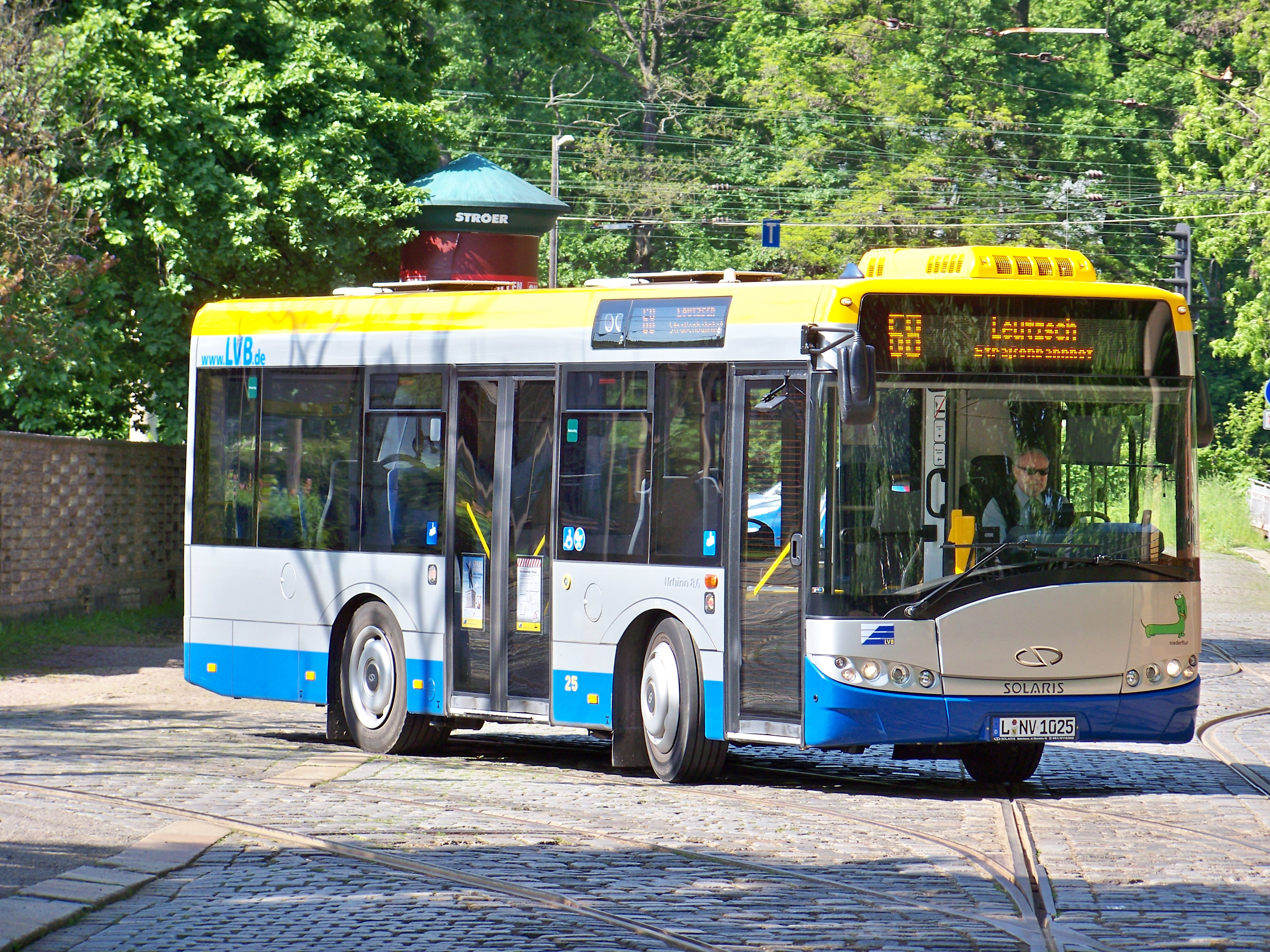 A Solaris Alpino 8.6 Midibus (8.6 metres length) in Leipzig, Germany. Leipziger Verkehrsbetriebe GmbH (LVB) operator.